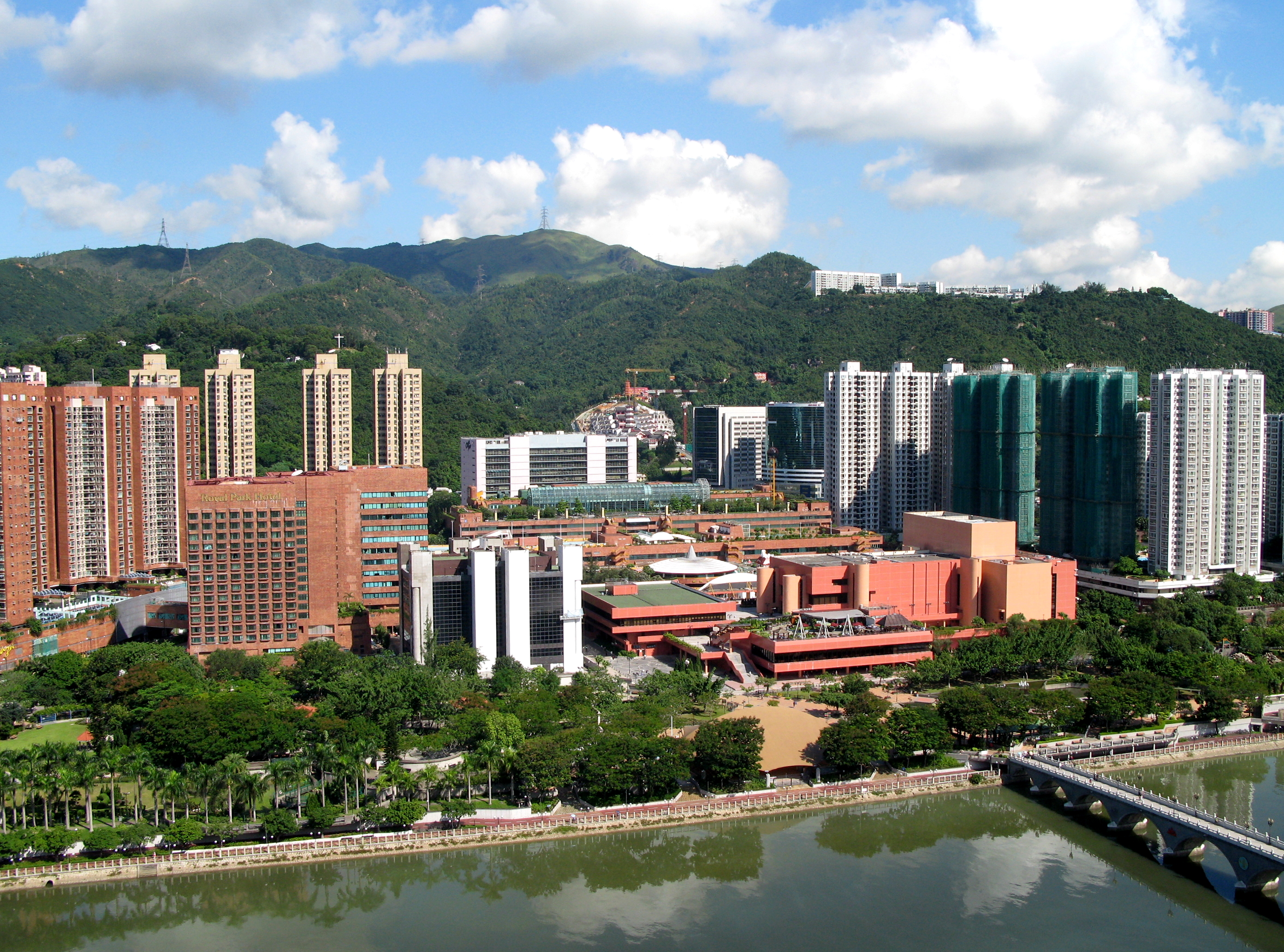 HK Sha Tin Town Centre 沙田市中心 (2007)